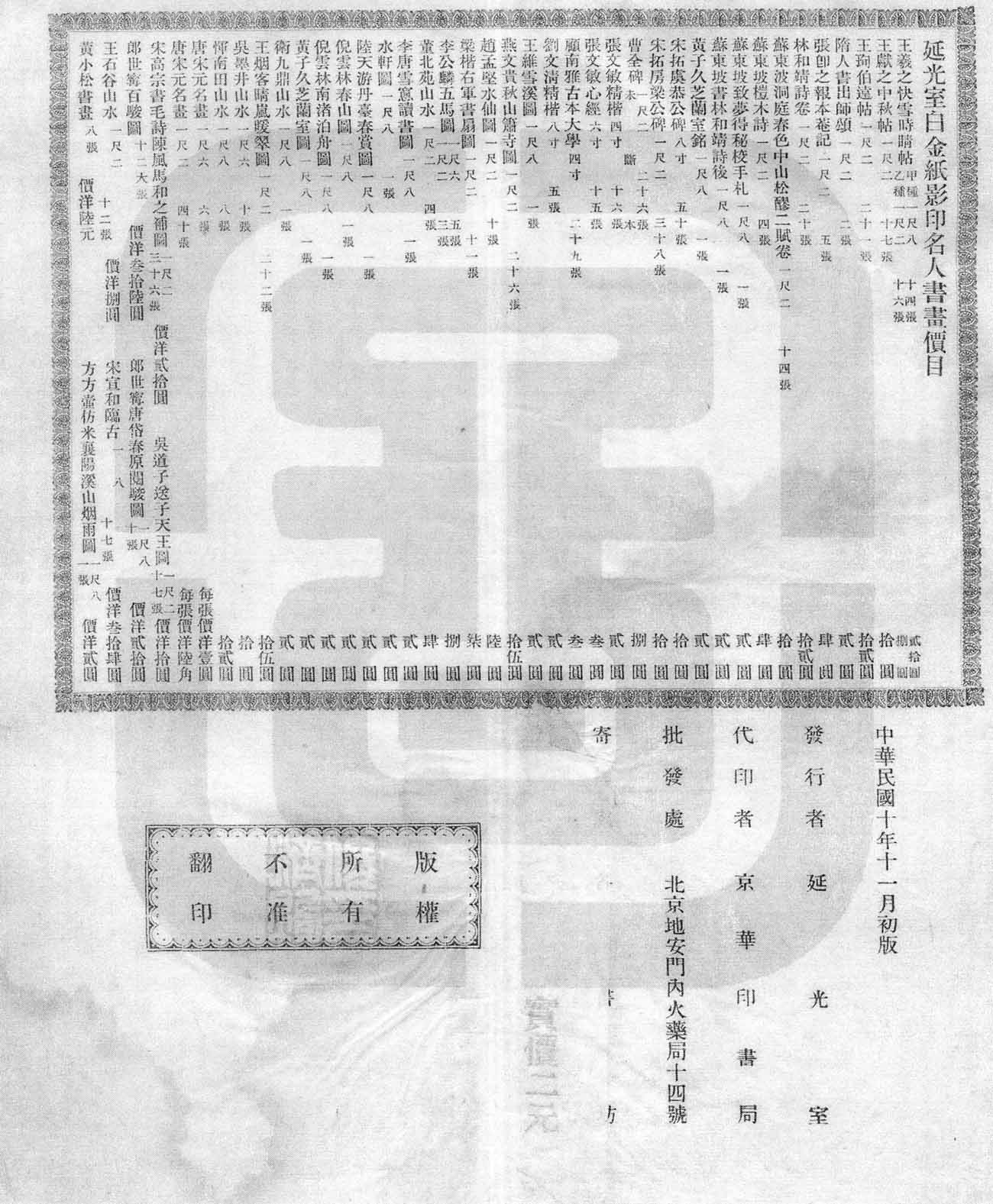 List of Yanguangshi copied Chinese paintings in November 1921.